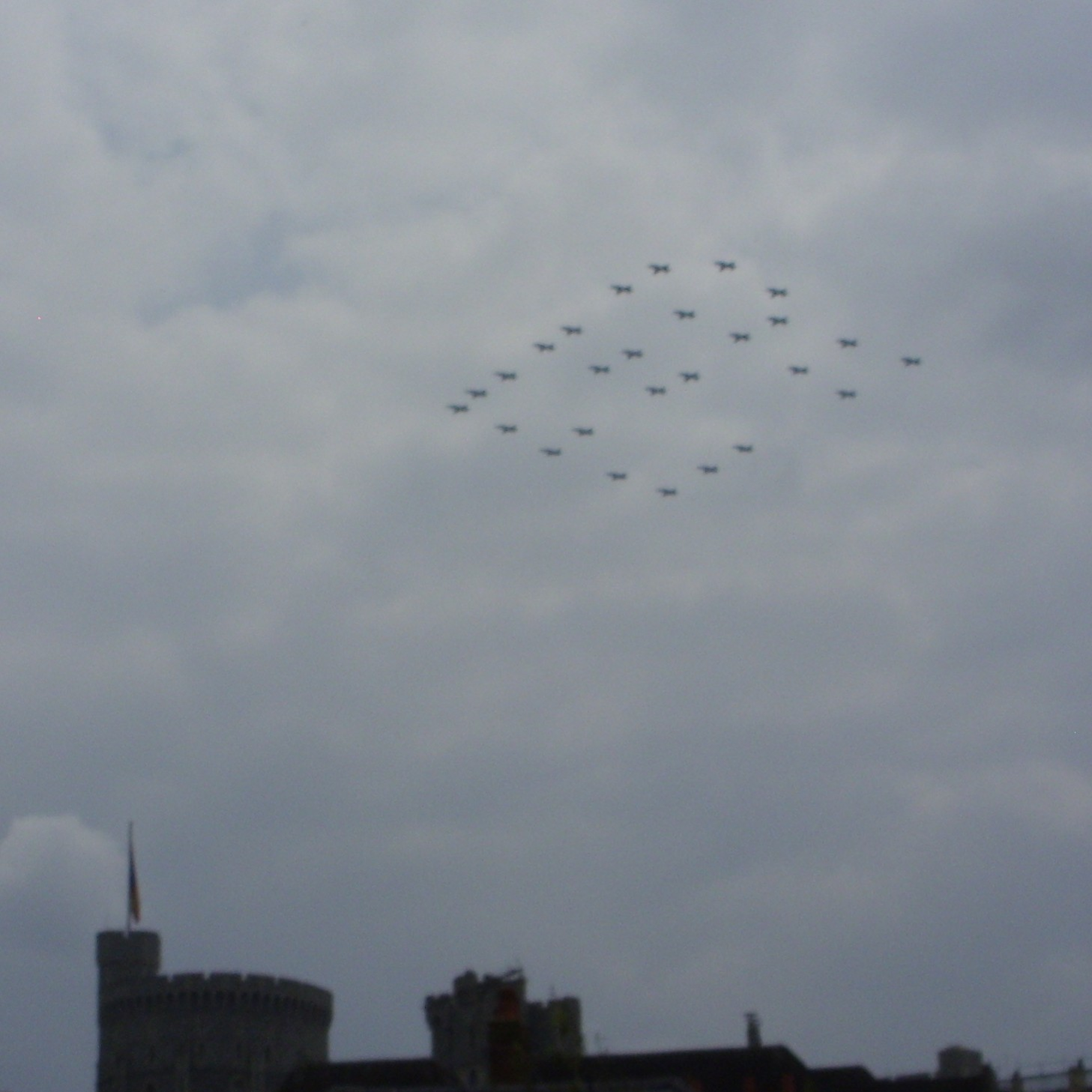 British Aerospace Hawk trainers of the Royal Air Force and Royal Navy in a "EIIR" formation during a flypast over Windsor Castle during the Diamond Jubilee Armed Forces Parade and Muster